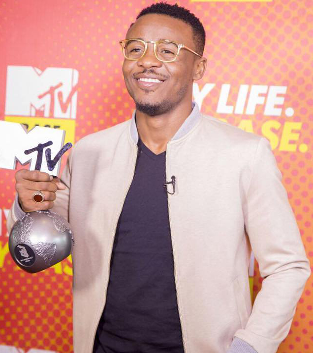 Ali Kiba at MTVEMA